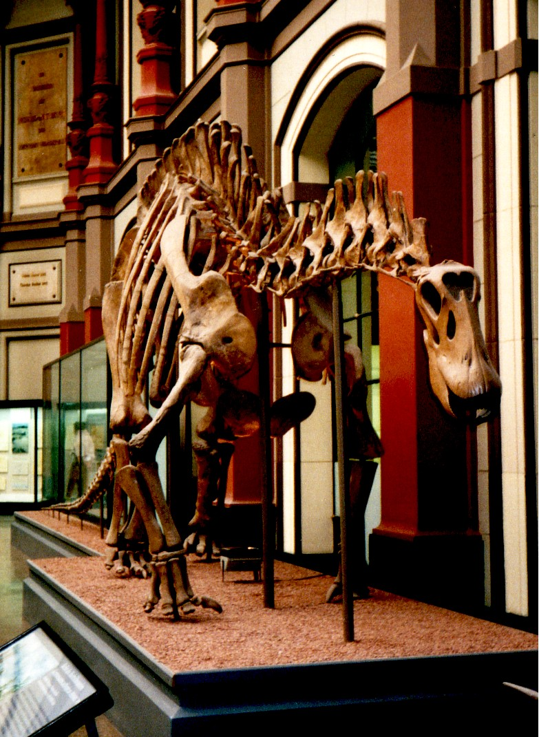 Mounted skeleton of Dicraeosaurus hansemanni in the Museum für Naturkunde, Berlin